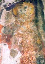 The cave church St. Erasmus in Ohrid, Macedonia. fresco of Theodor Comnen Ducas